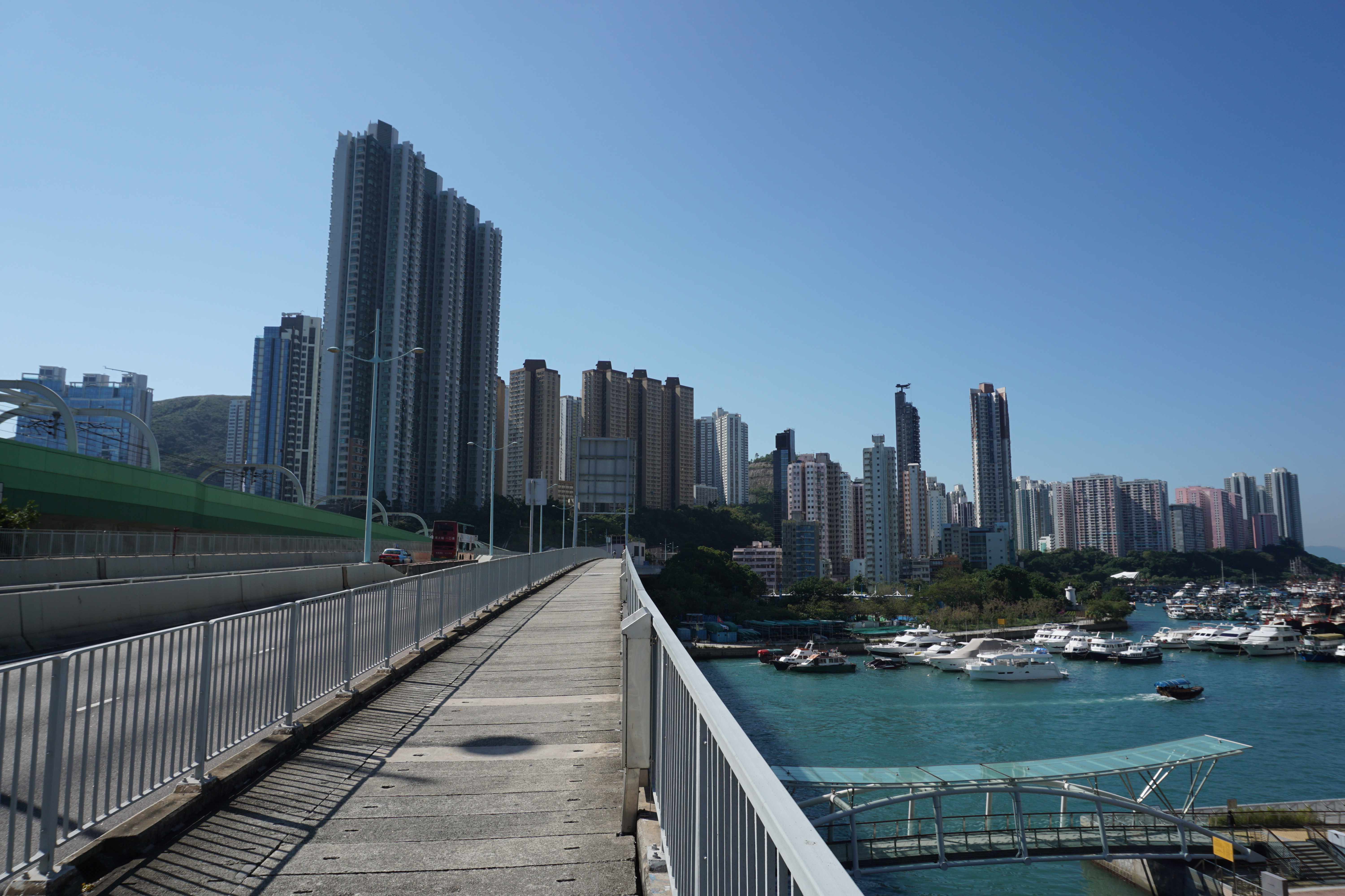 Ap Lei Chau in Southern District, Hong Kong.